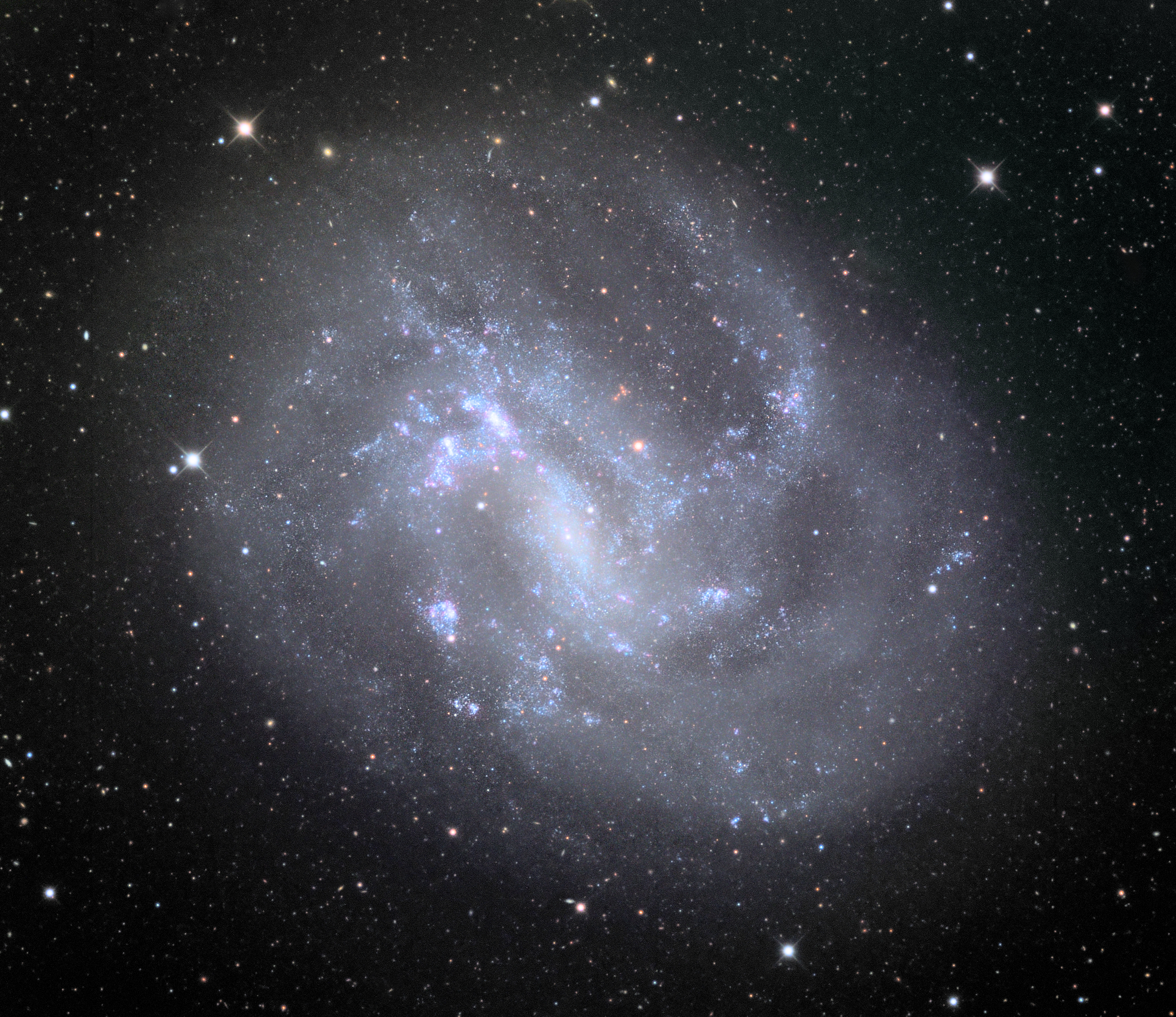 NGC 4395 spiral galaxy in 32 inch Schulman telescope